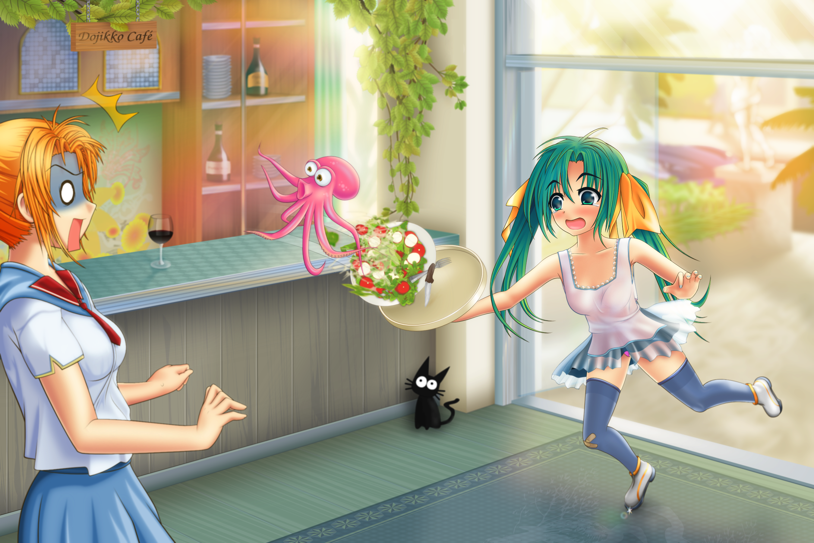 The girl at the right is a Dojikko. She is portrayed as if she is going to fall. The left girl is intentionally outside the image, giving the feeling she is pressed against an invisible wall, with no escape from what is coming.